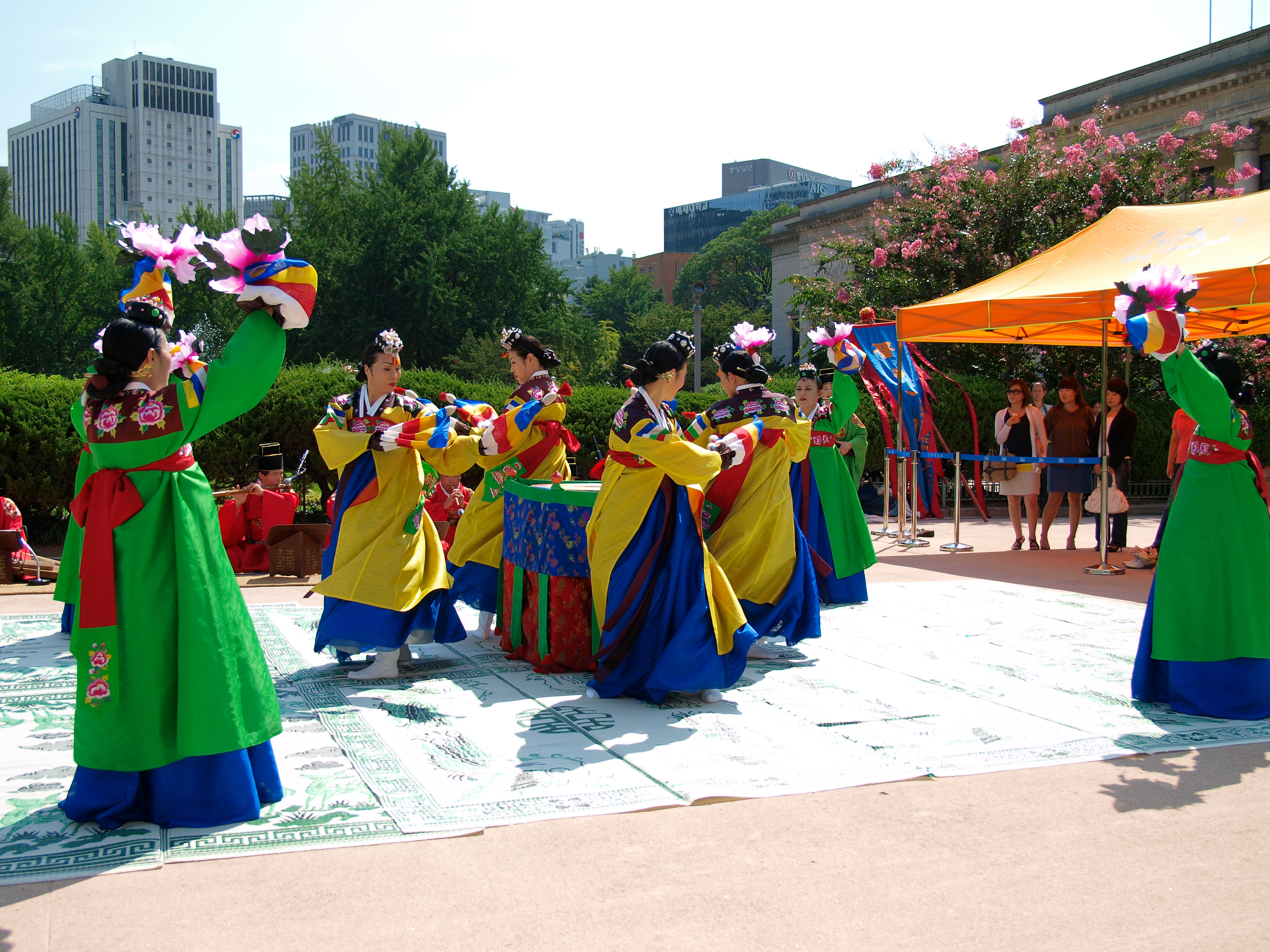 Jinju pogurakmuk is a variety of pogurakmu, literally meaning ball-throwing dance which has been handed down to Jinju, South Korea. Pogurakmu is one of Korean royal court dance. The performance was held in Sep. 10th, 2008 at Deoksugung, Seoul, South Korea. Further readings in Korean.[1][2]